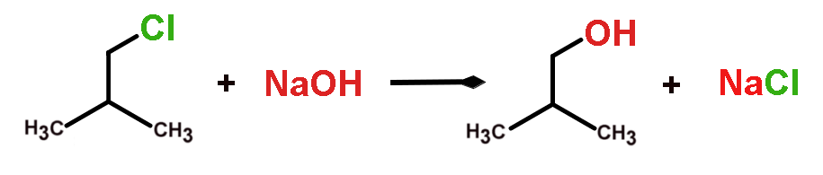 Isobutanol synthesis from isobutyl-chloride